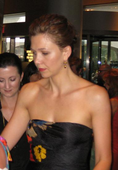 Maggie Gyllenhaal (Note- cropped from much larger image. It deos not appear to be a copyvio due to thie size of the original image)